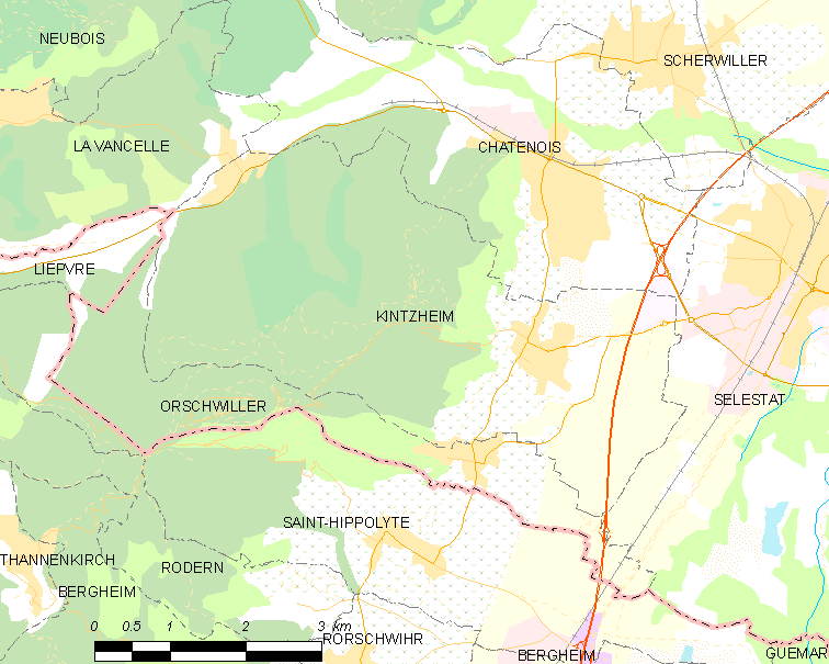 Map of French municipality